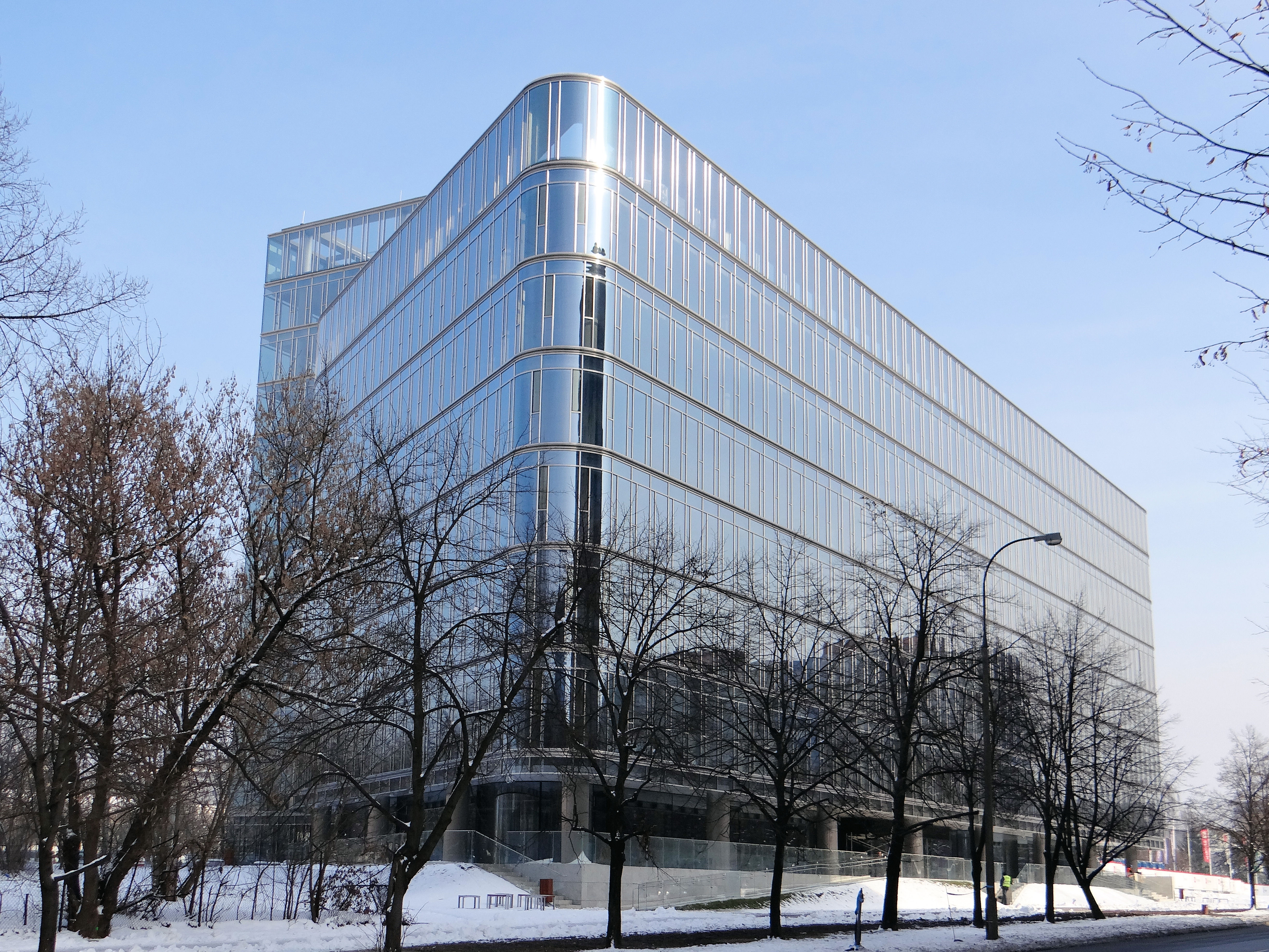 Ambassador Office Building at 34A Domaniewska Street in Warsaw